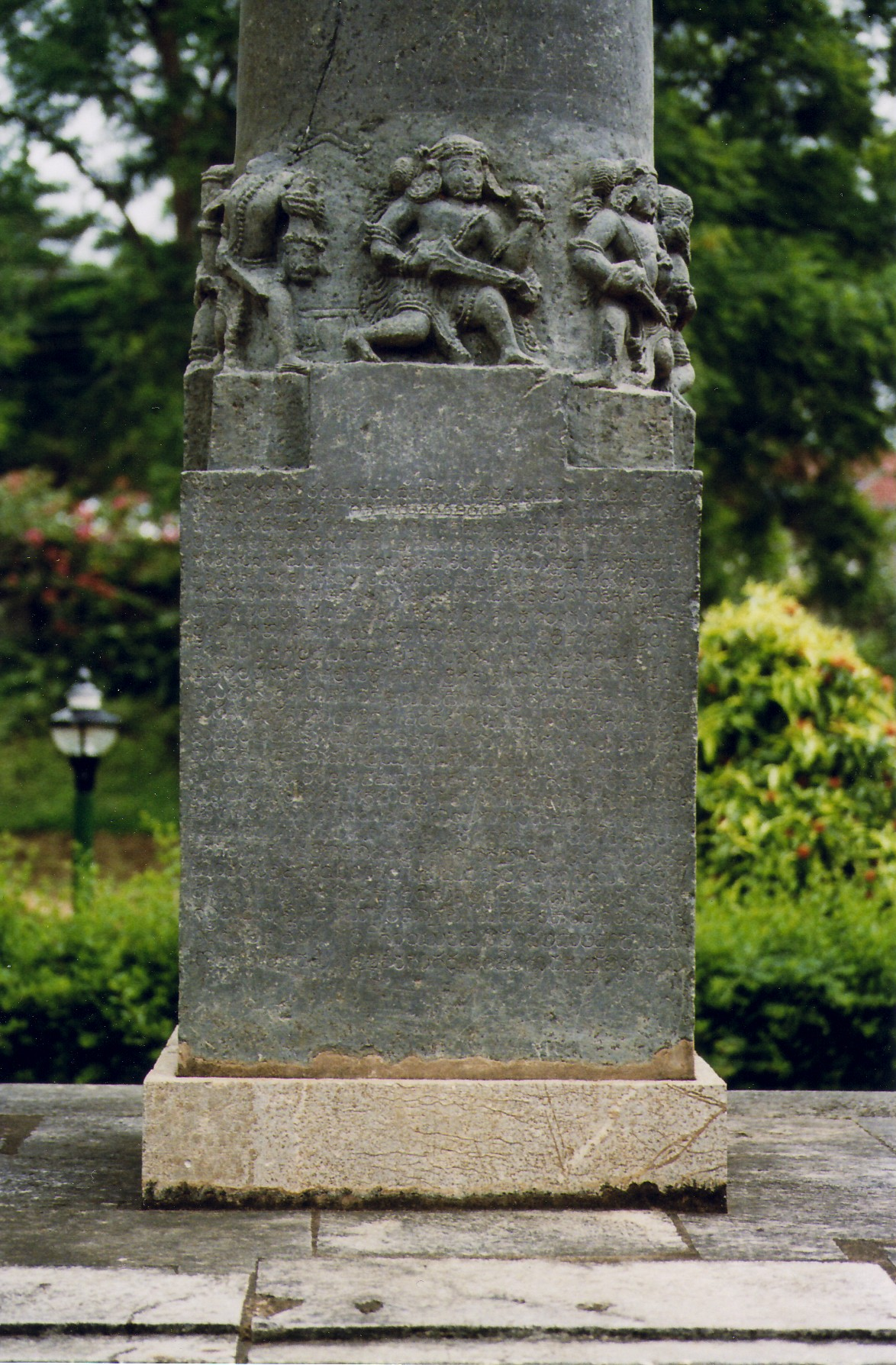 Photograph taken by self (Dineshkannambadi) at Hoysaleswara Temple at Halebidu, Karnataka, India in July 2006. This garuda pillar, dated to around 1220 A.D., is a herostone (vira sasana) which glorifies Kuvara Lakshma, a general, minister and faithful body guard of Hoysala empire King Veera Ballala II. Around 1220 A.D, when his king died, Kuvara Lakshma and his wife Suggala Devi committed suicide out of affection and devotion toward their master. Source:Ancient India: Collected Essays on the Literary and Political History of Southern India, pp.388-389, Sakkottai Krishnaswami Aiyangar, Asian Educational Services, 1911, Madras, ISBN-81-206-1850-5